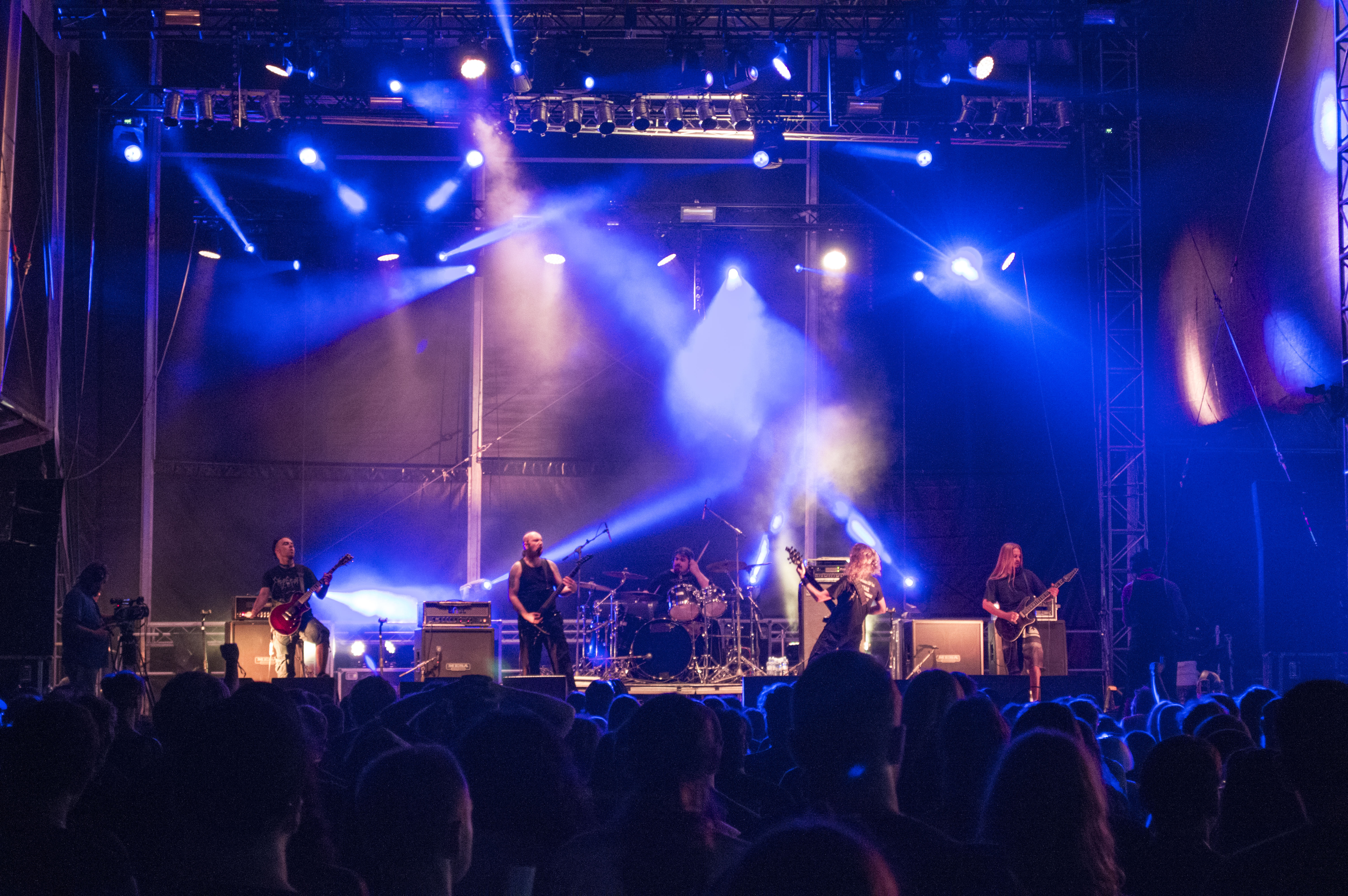 Band Esoteric performing at Brutal Assault festival in Czech republic. 2015